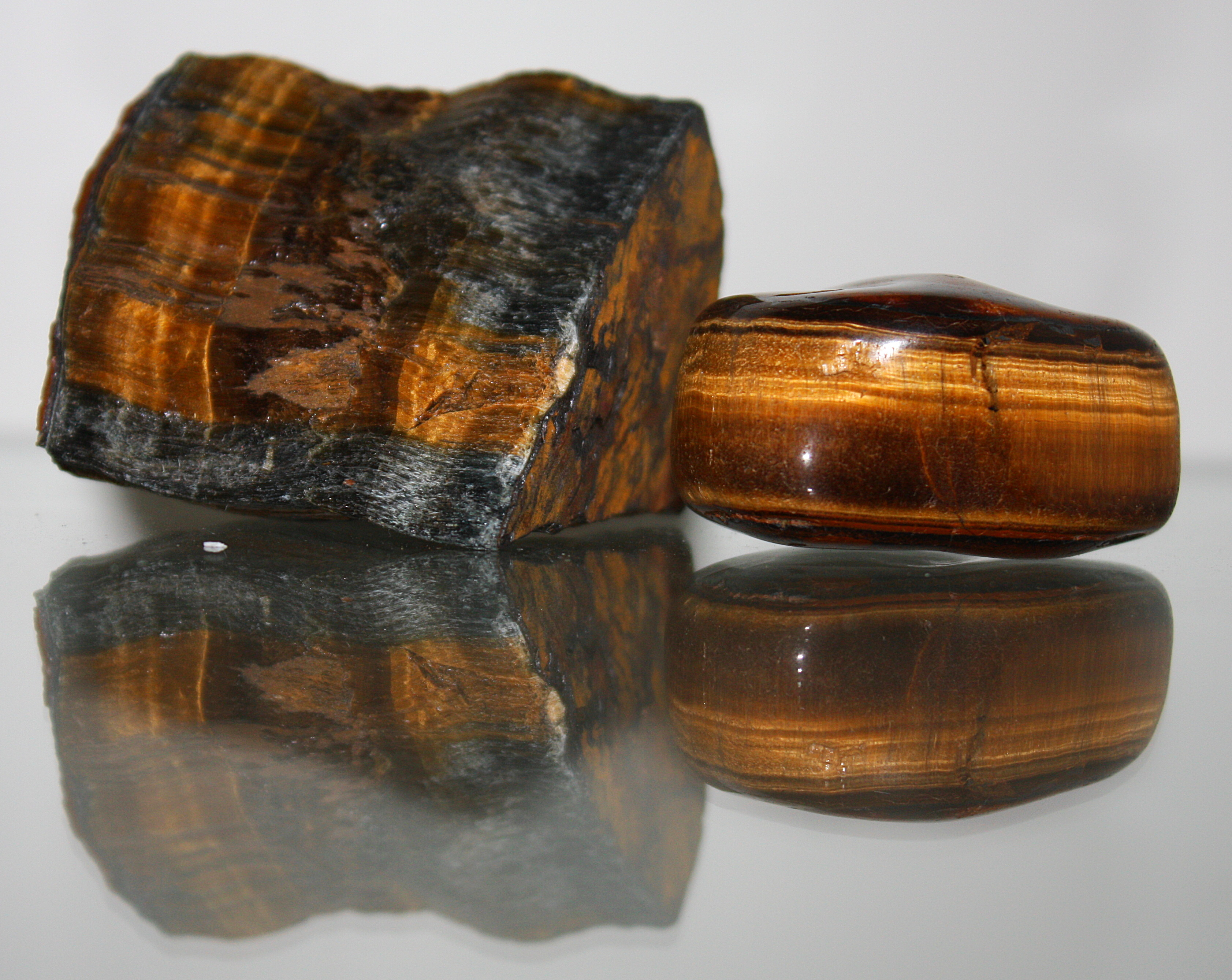 Gemstone that is usually a metamorphic rock that is yellow- to red-brown.